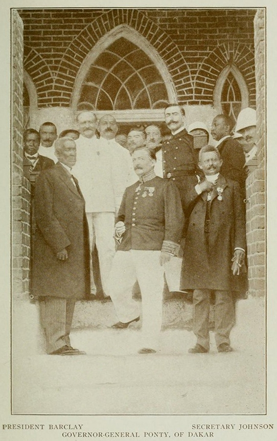 President Barclay and visitors - from: The land of the white helmet.